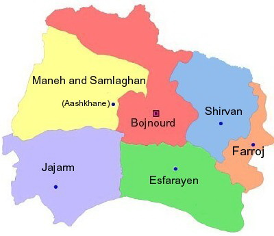 North Khorasan Province's administrative divisions (in Iran)